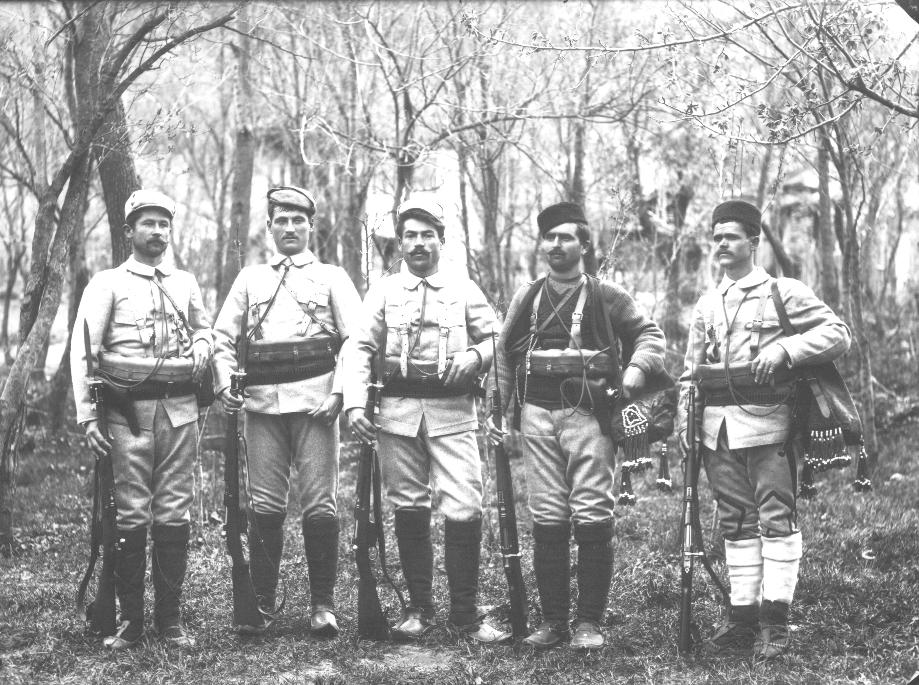 Portrait of Bulgarian revolutionary from IMARO Ivancho Hristov Hazhiata